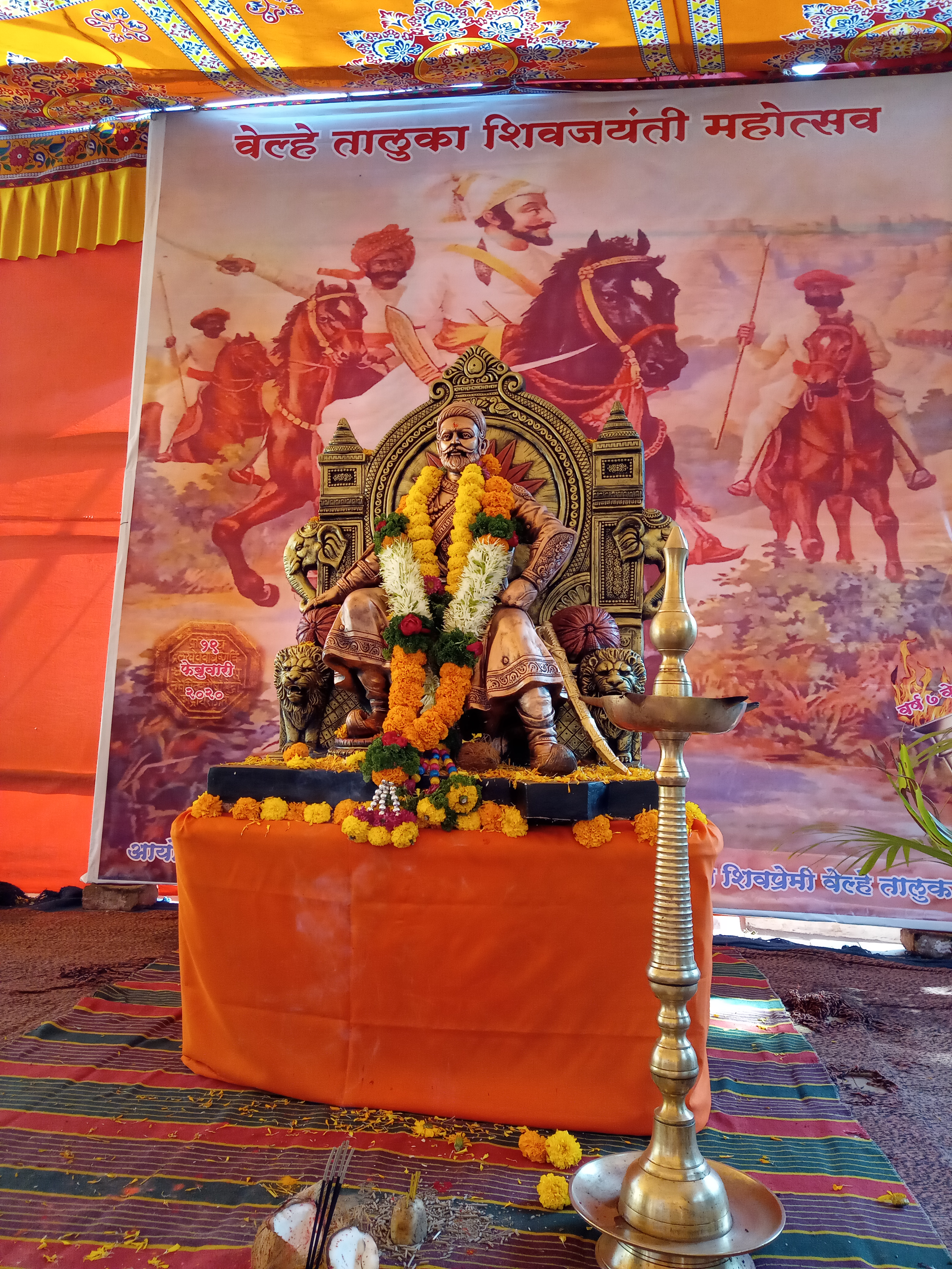 Shivaji Maharaj